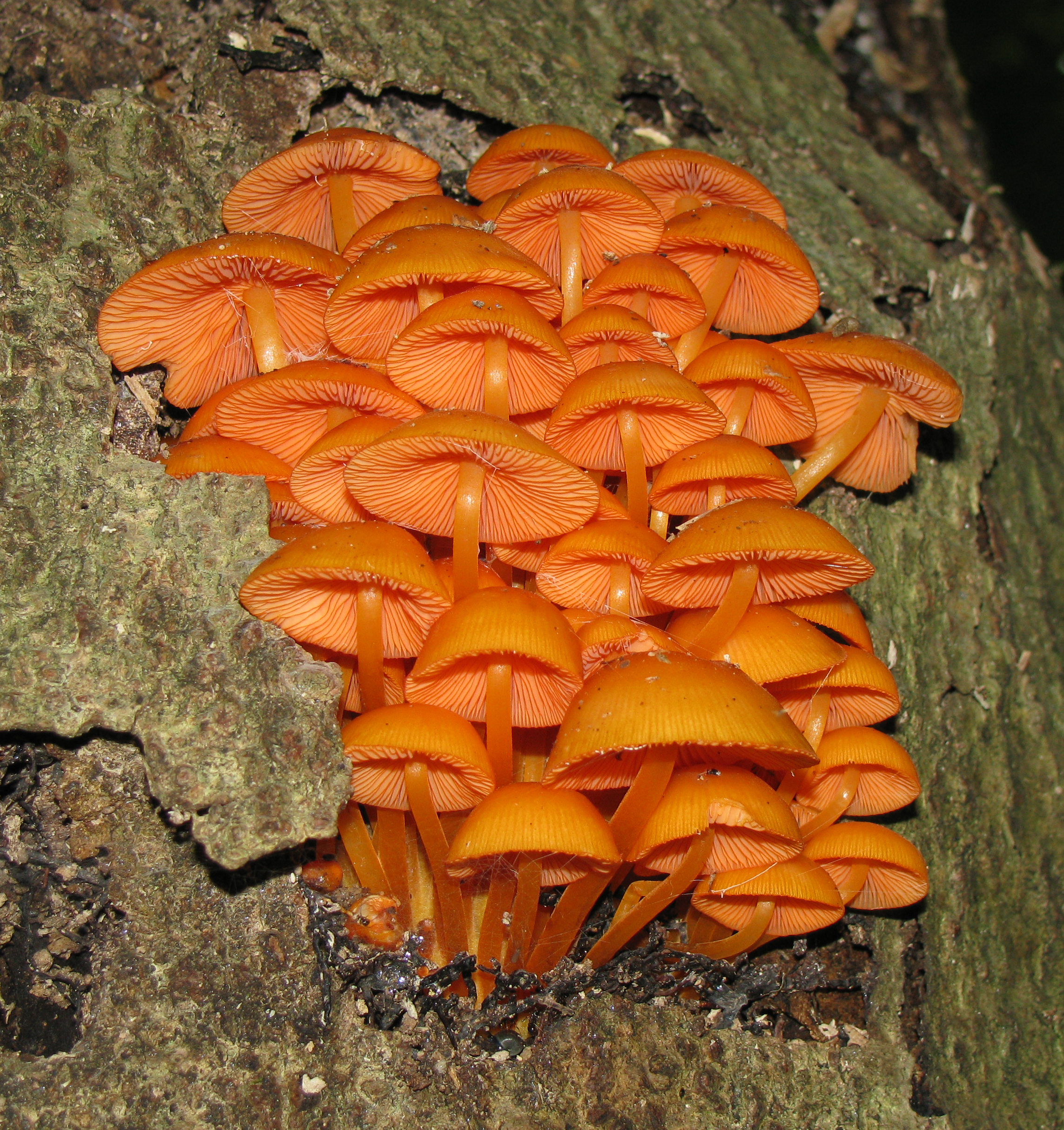 The orange mycena, Mycena leaiana (Berk.) Sacc. Photographed in Babcock State Park, Fayette Co., West Virginia, USA